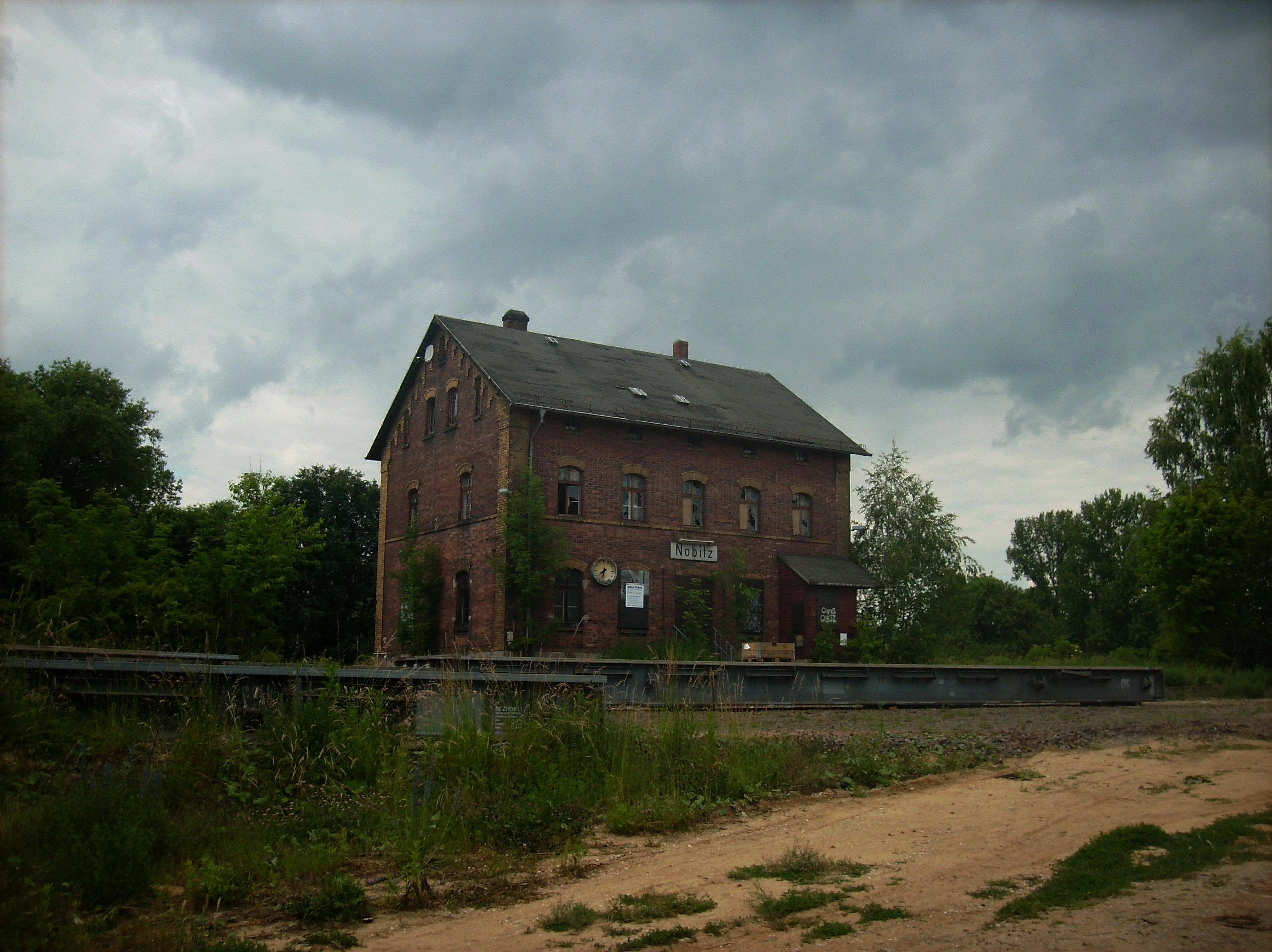 Former Nobitz train station at the Altenburg-Narsdorf railway line (district of Altenburger Land, Thuringia)